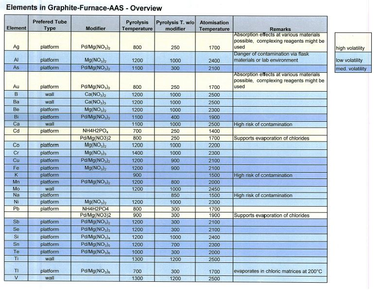 A good starting point for GFAA elemental analysis methods.